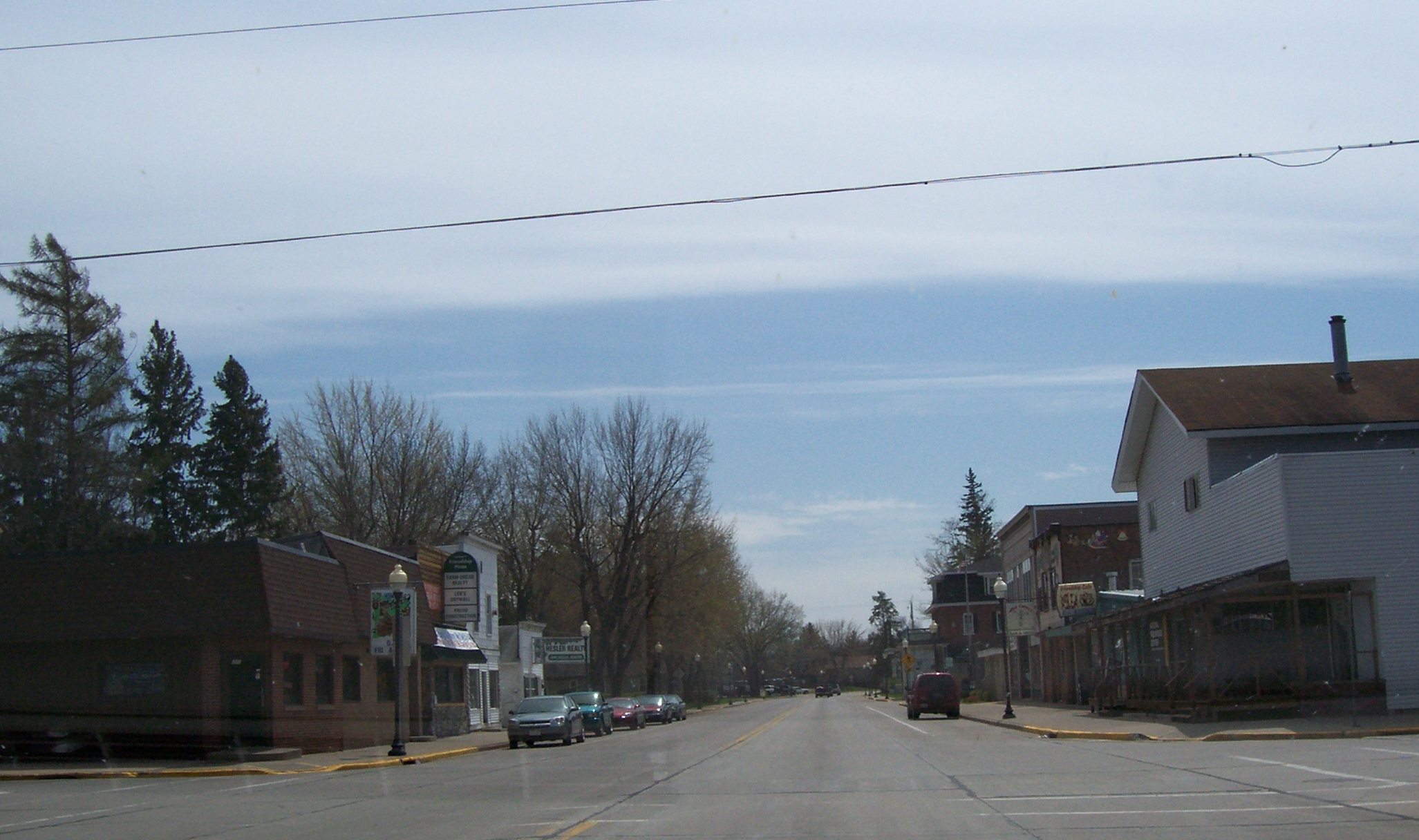 Looking south at downtown Friendship, Wisconsin, USA on Wisconsin Highways 13.